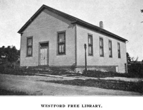 Library in Vermont